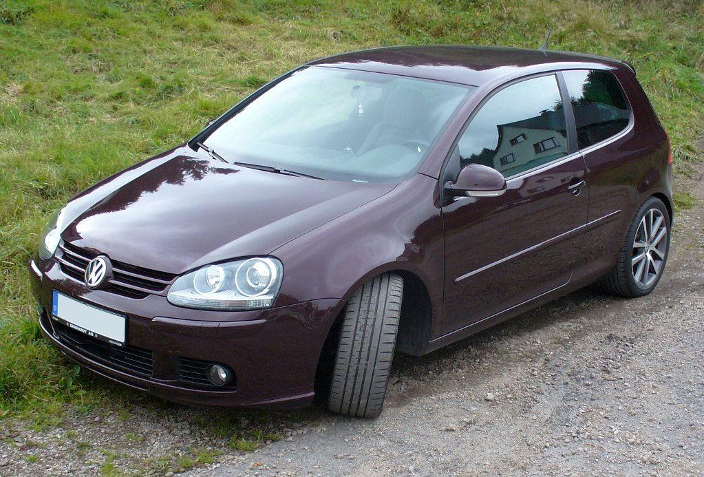 VW Golf V Individual